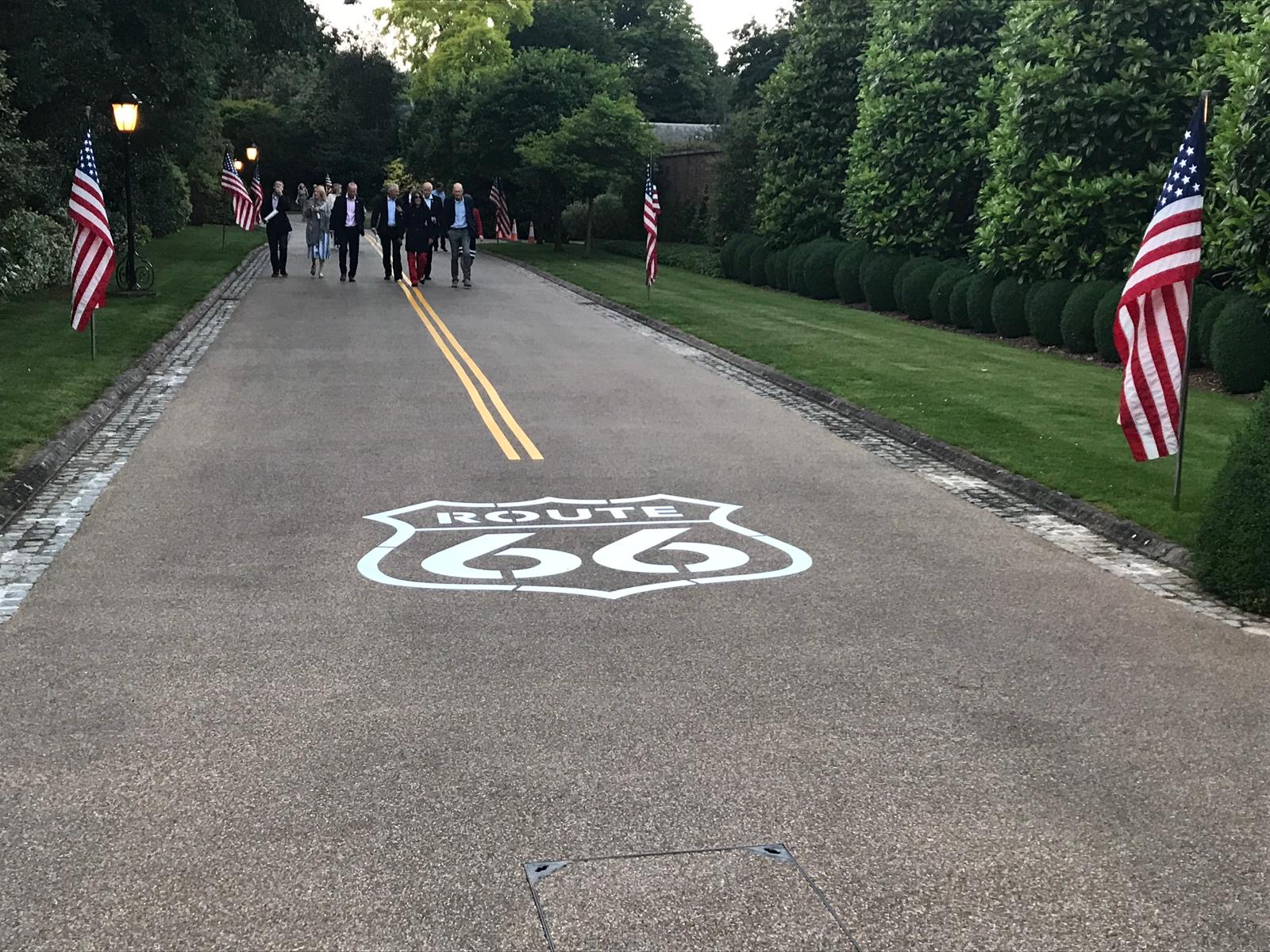 Entrance to the grounds of Winfield House painted to be reminiscent of U.S. Route 66.